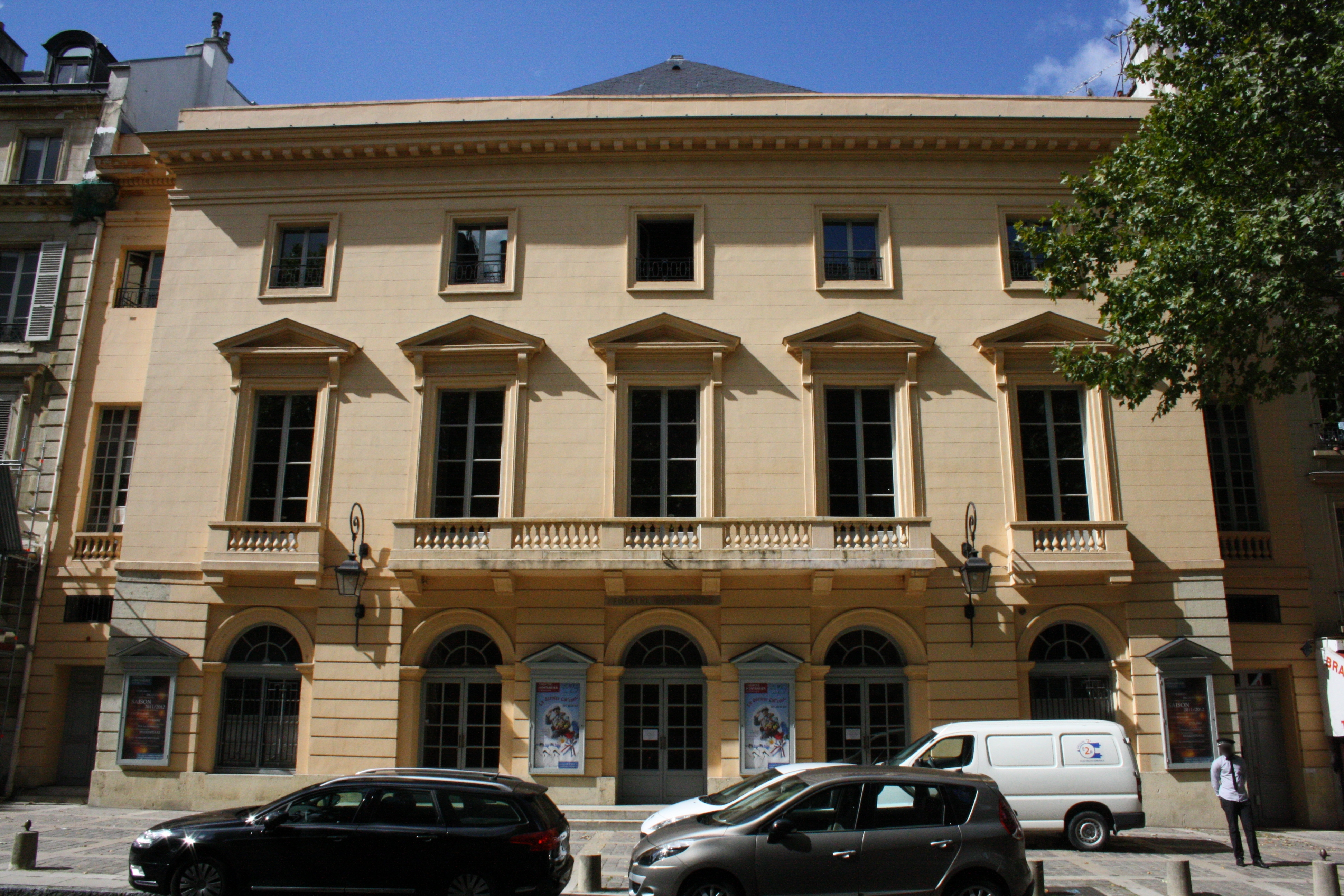 Théâtre Montansier is a theater located 13 Réservoirs street in Versailles, France.